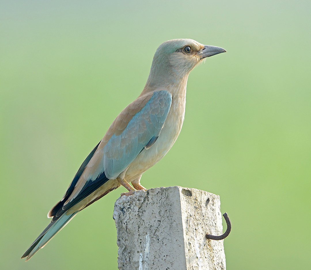 European Roller (Coracias garrulus) is a passage migrant in Delhi, Haryana and Rajasthan. Seen in Village Singhola, District Gurgaon, Haryana, 1st Sep 2012